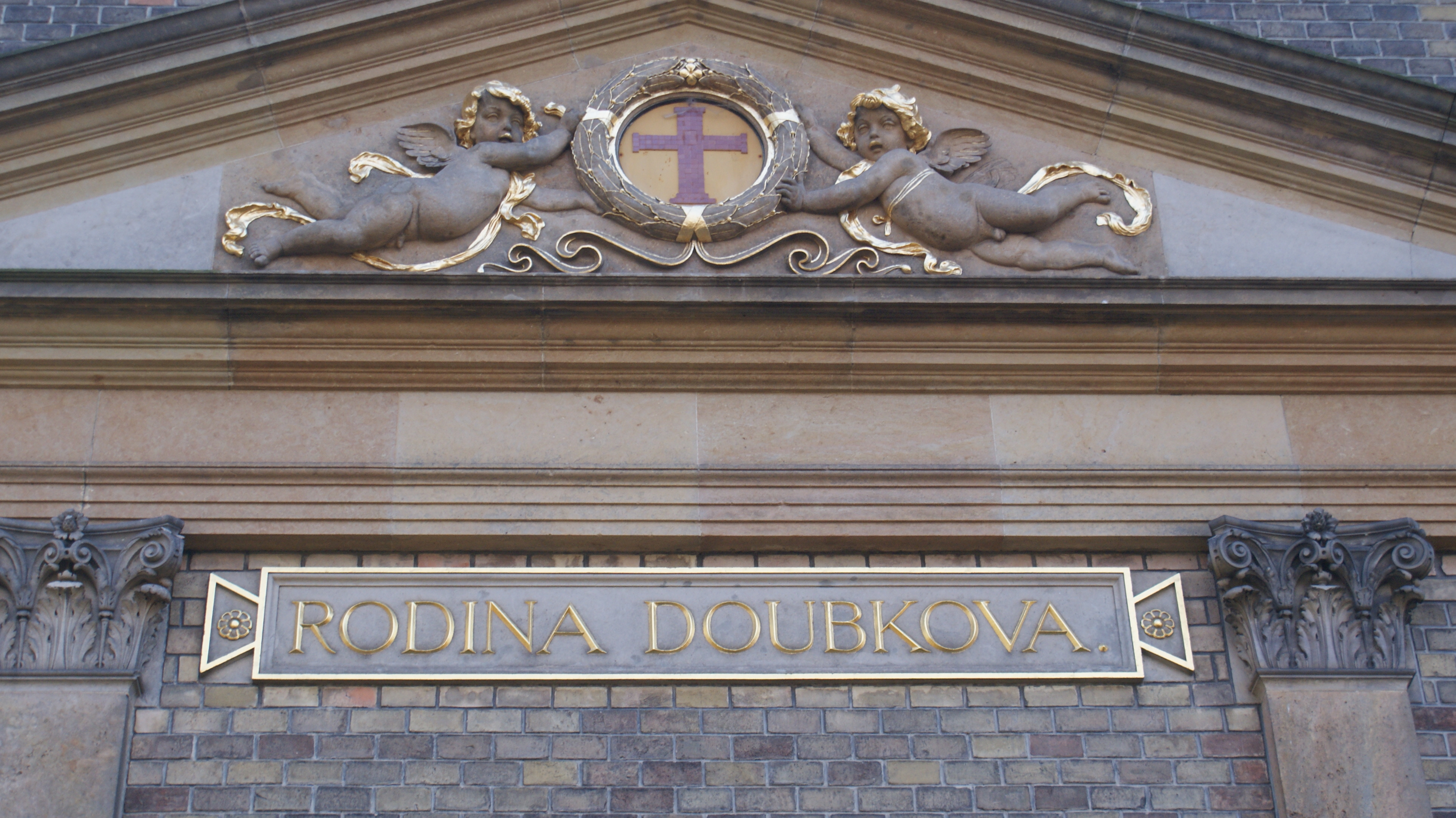 Funeral chapel of Daubek family